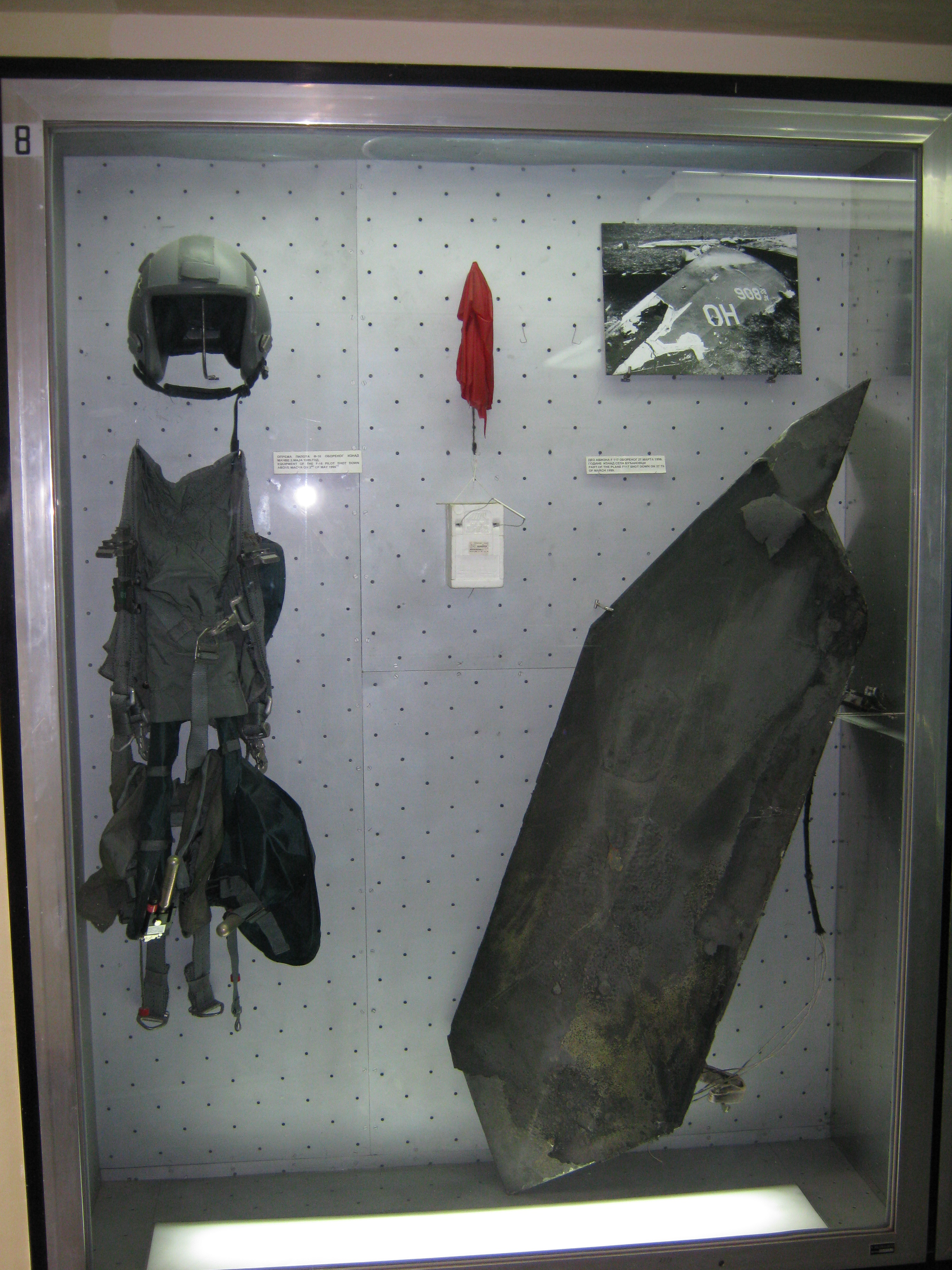 F16 equipment of pilot and part F117 plane fragments, downed over Serbia 1999, exposed in the millitary museum. Photo taken in:Military museum Belgrade Photo taken in:Military museum Belgrade